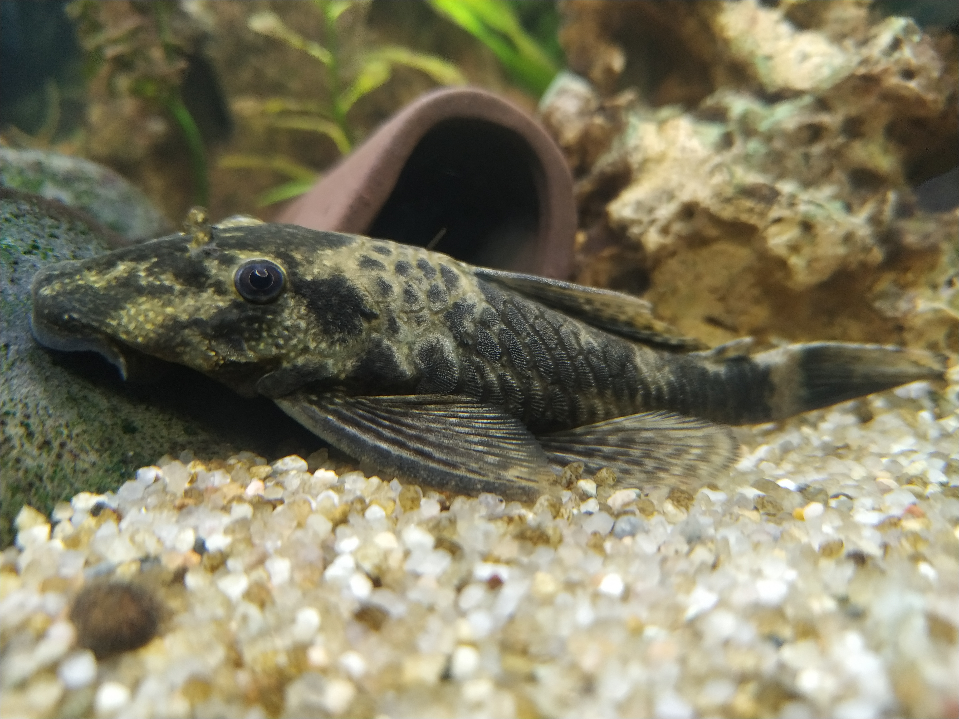 Ancistrus dolichopterus